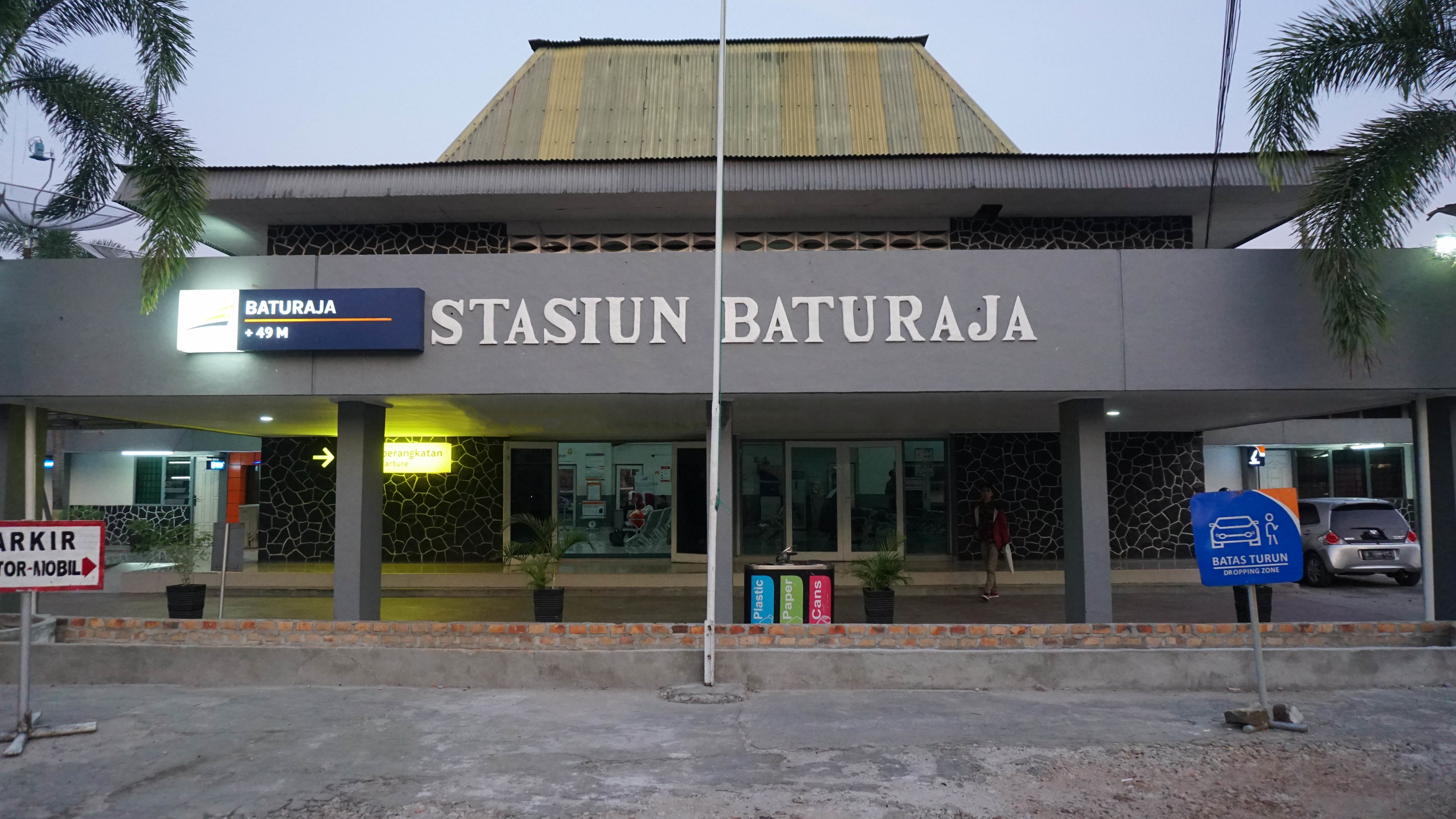 Baturaja Station Building